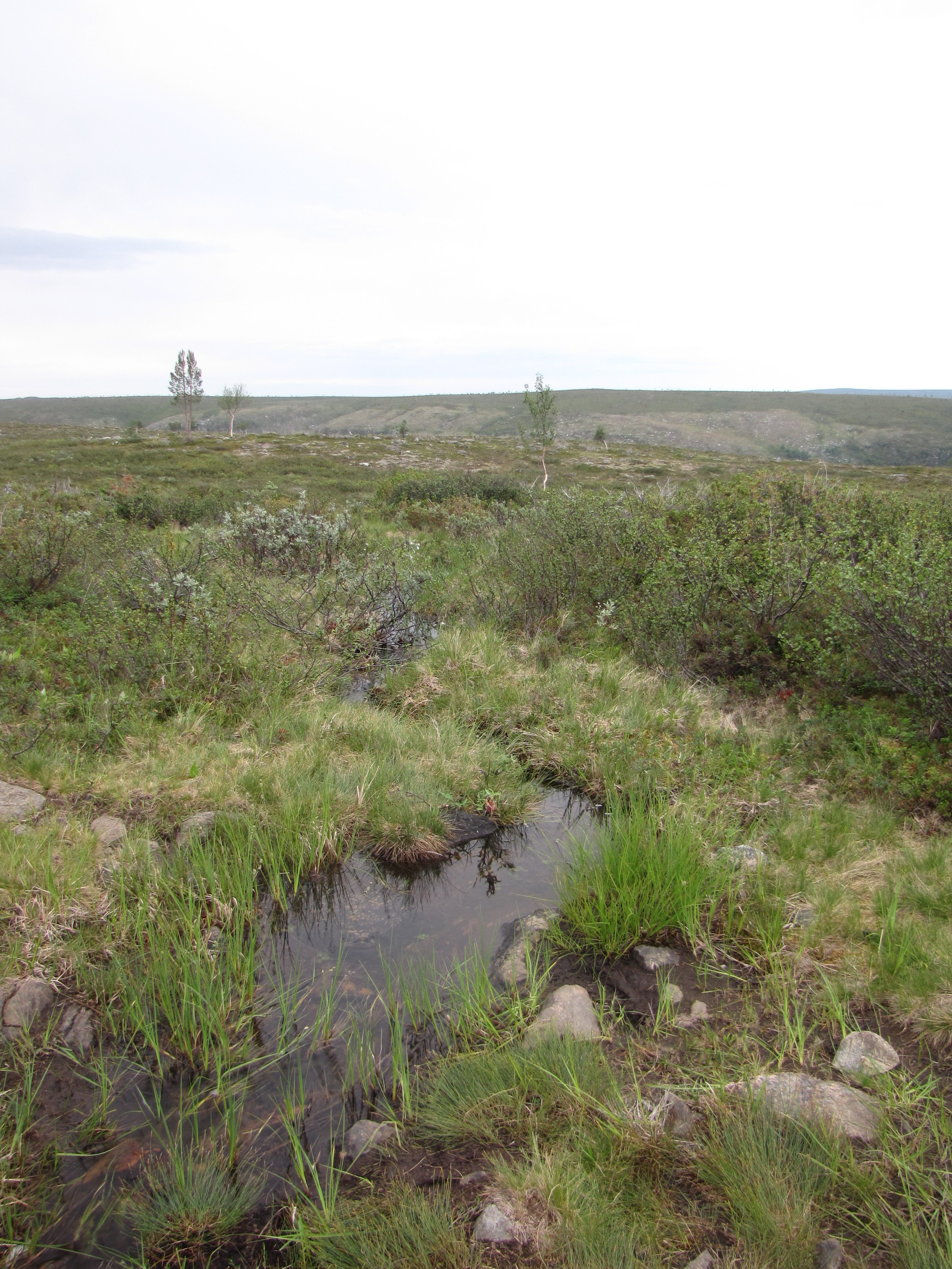 pond in the tunturi